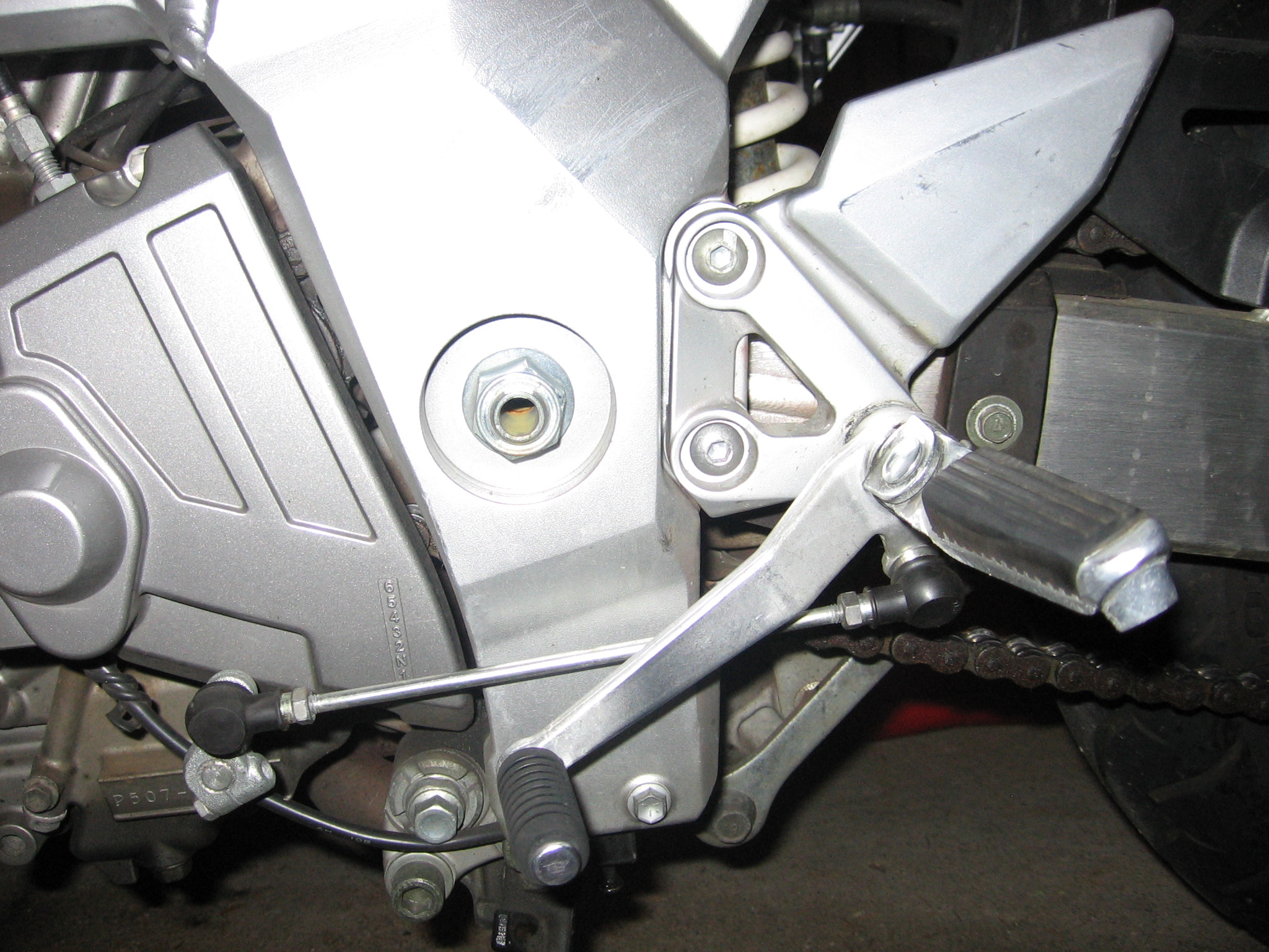 Photo of the gearshift on my motorcycle, for use in the article on manual transmissions.